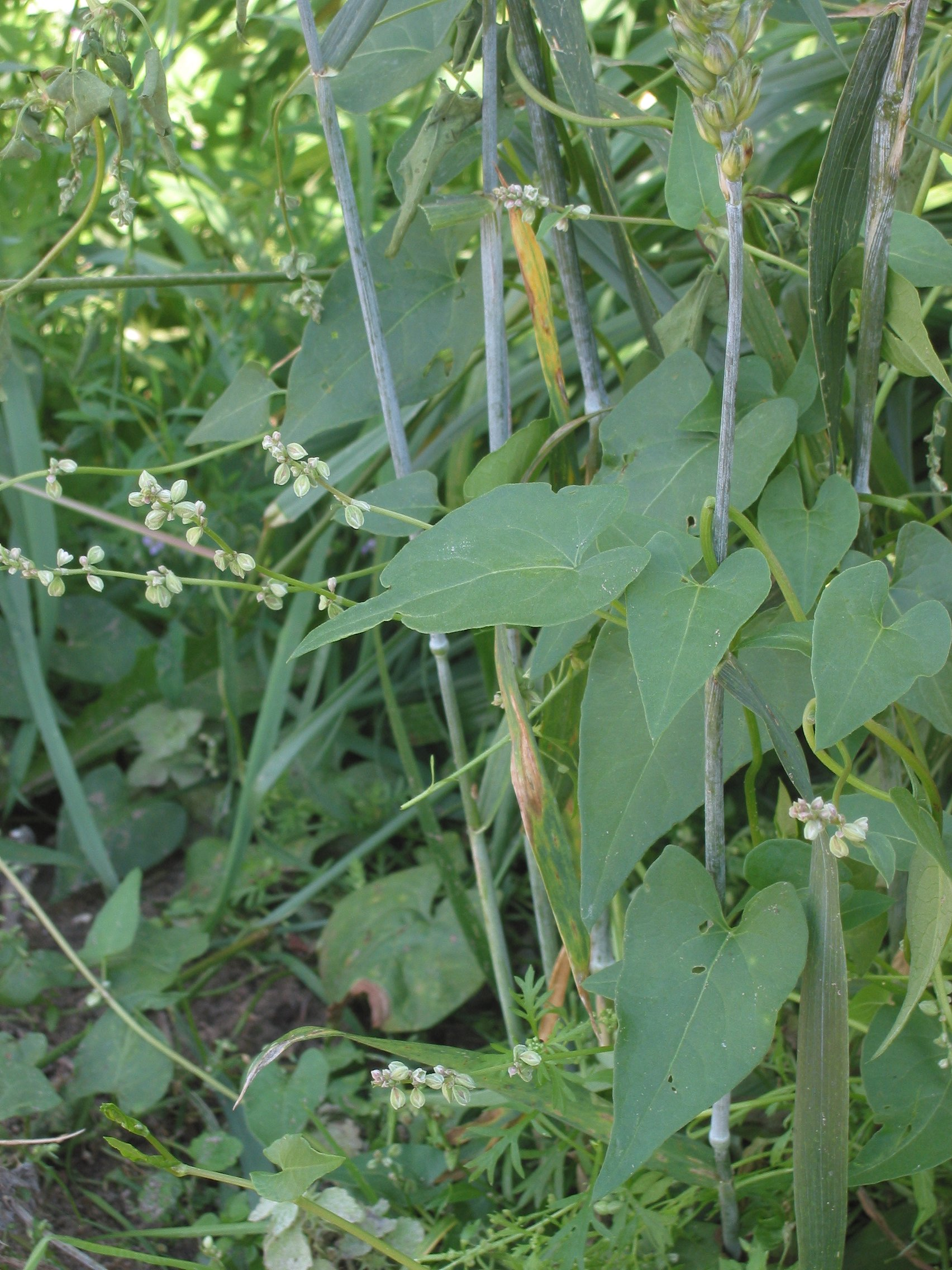 Fallopia convolvulus